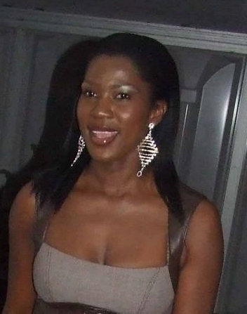 Stephanie Okereke at the Thisday Awards in Lagos, Nigeria, February 2008